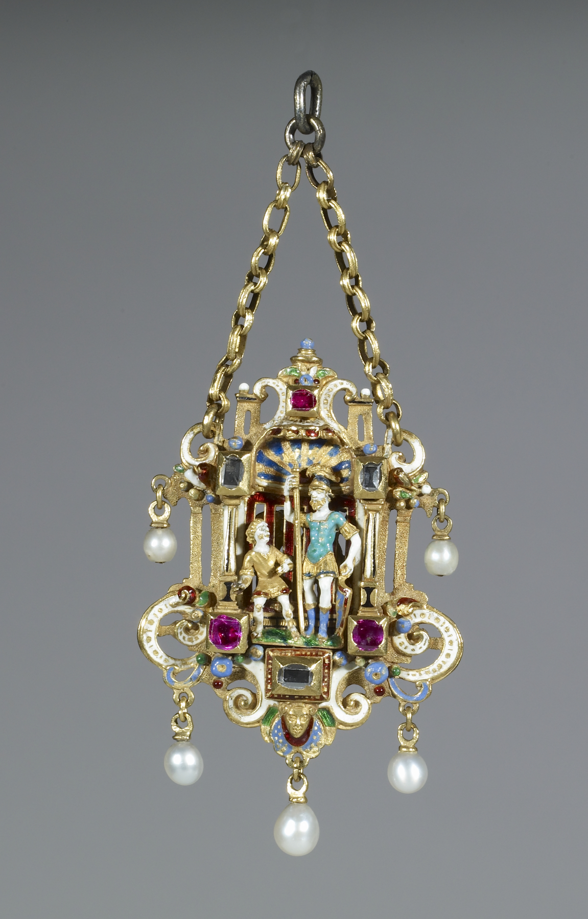 This elaborate double-sided pendant depicts two biblical scenes. The side displayed here shows Judith with a sword in her right hand and the head of Holofernes in the other. With the help of her maid, she is about to drop the head into a bag. The other side of the pendant portrays David, about to swing his sling at Goliath, who appears in the dress of a Roman military leader.